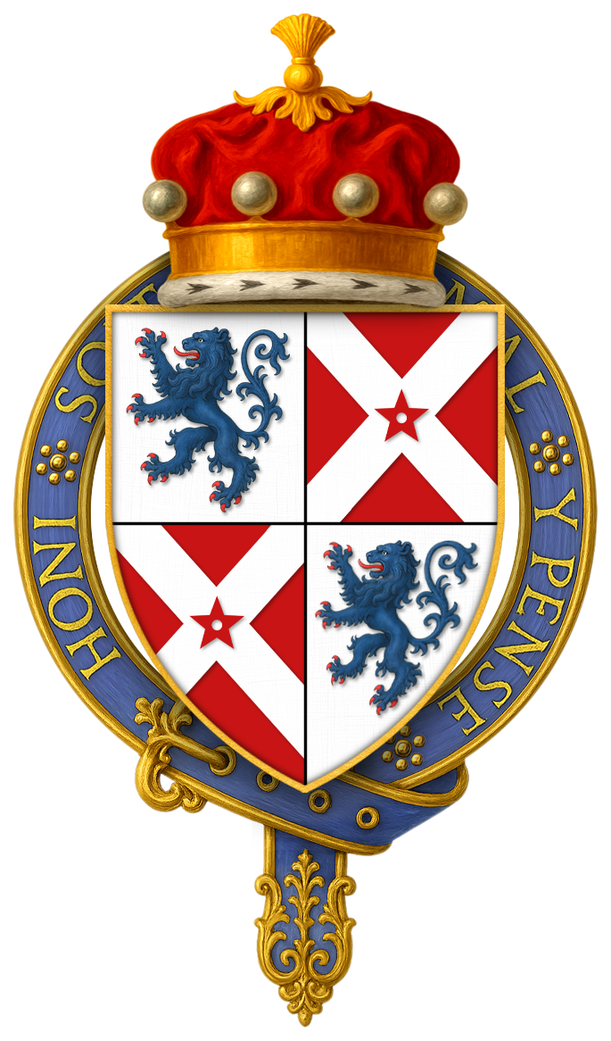 Sir William Nevill, 6th Baron Fauconberg, KG HOPE, W. H. St. John, The Stall Plates of the Knights of the Order of the Garter 1348 – 1485: A Series of Ninety Full-Sized Coloured Facsimiles with Descriptive Notes and Historical Introductions, Westminster: Archibald Constable and Company LTD, 1901. “ Sir William Nevill Lord Fauconberg, K.G... [arms] quarterly: 1 and 4, silver a lion azure (for Fauconberg); 2 and 3, gules a saltire silver and a mullet gules on the saltire (for Nevill). ” The Stall plate remains intact within the eighteenth stall, on the north side of the chapel.